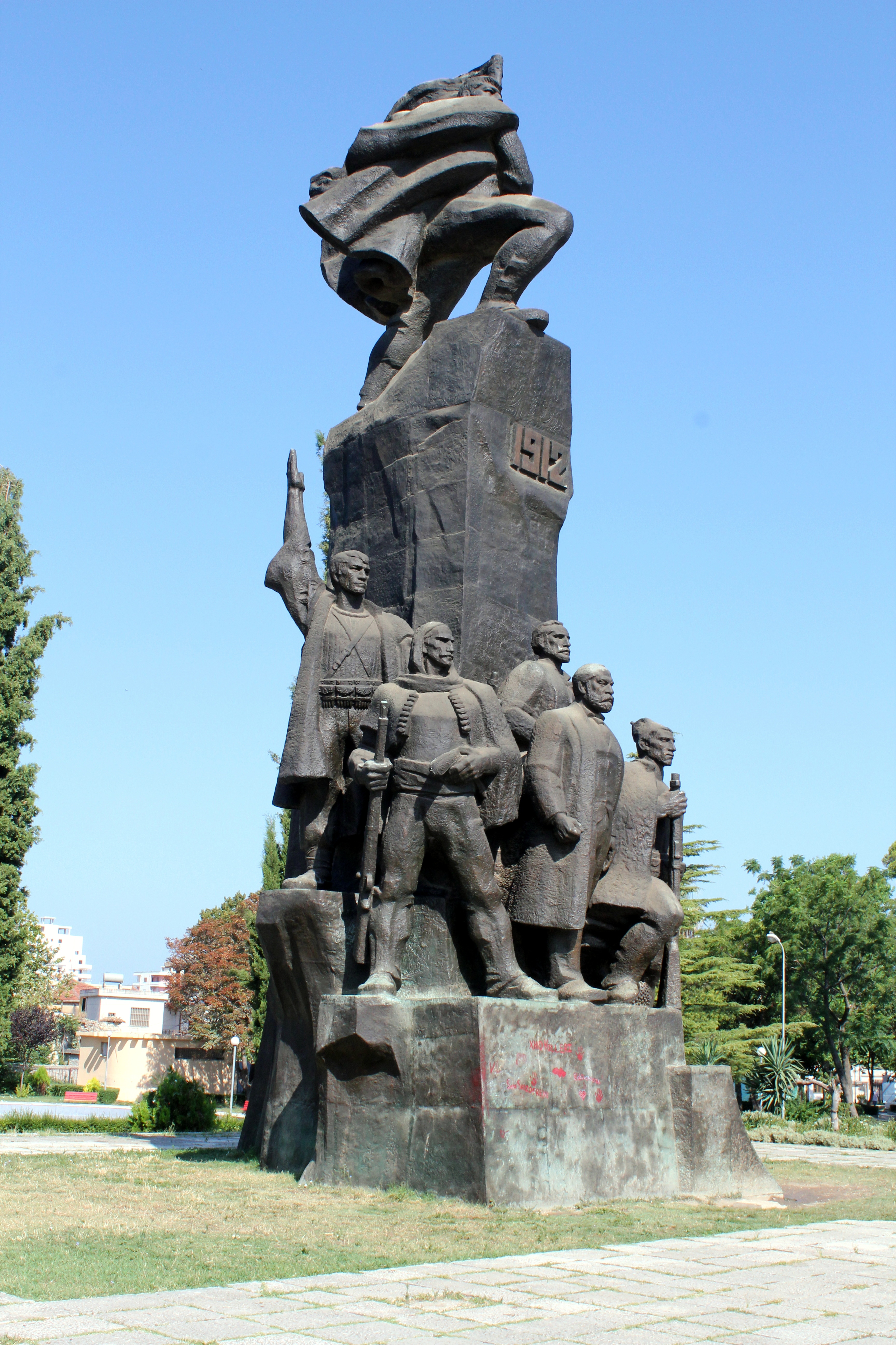 Monument of Independence of Albania, Vlora